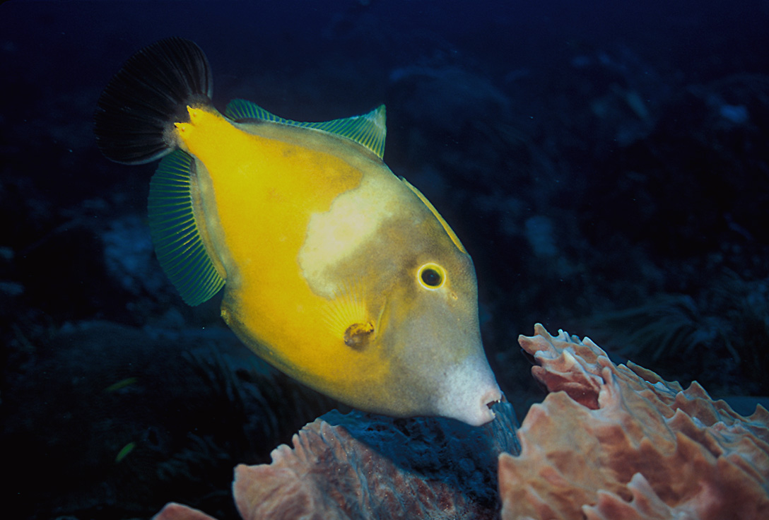 A rather flambouyant Whitespot Filefish (Cantherhines macrocerus) is wondering what the funny looking guy with the underwater camera is up to. Playa del Carmen, Mexico